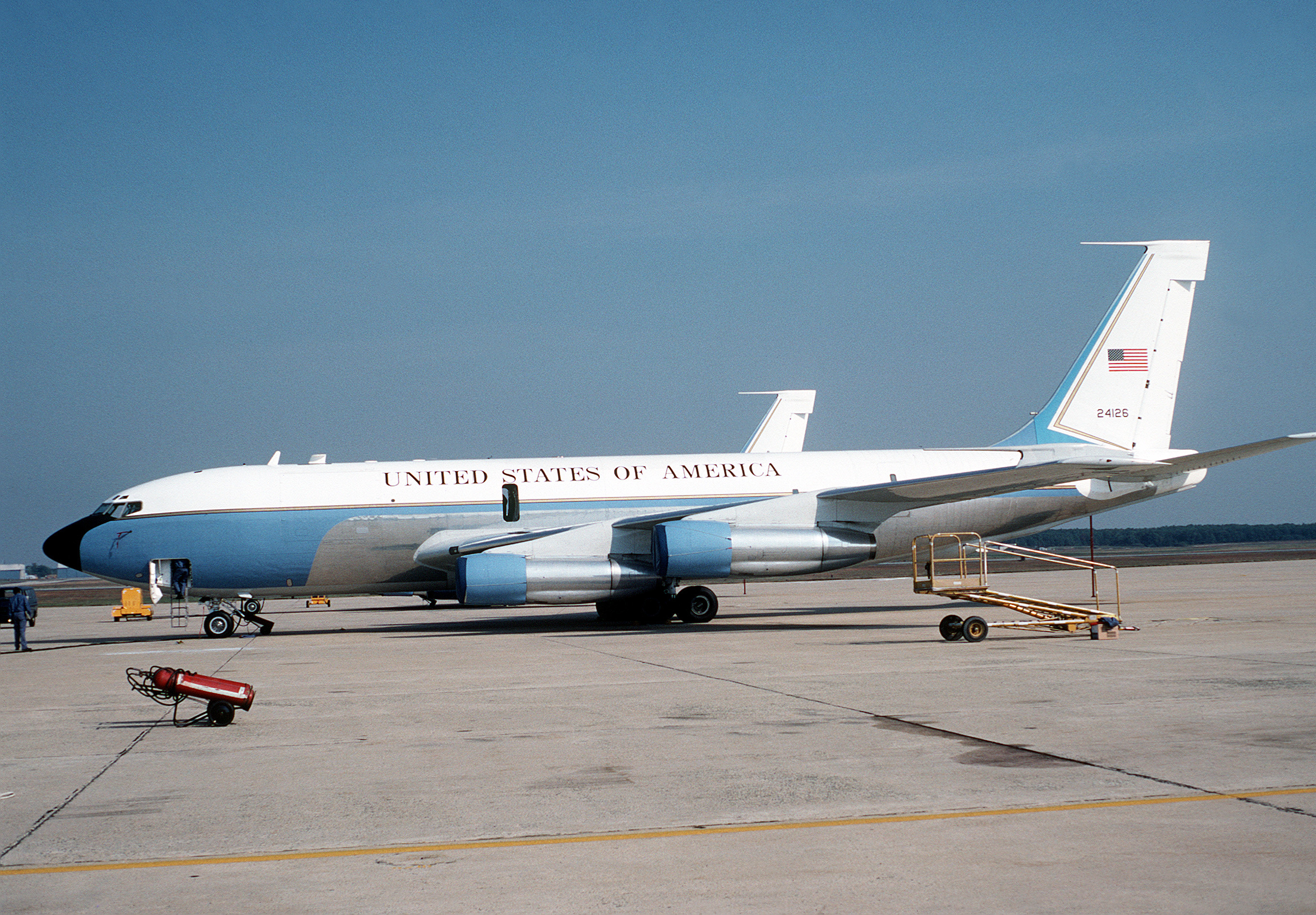 Boeing C-135B Stratolifter (62-4126) for VIP-transport. Original caption: A left side view of a C-135 aircraft parked on the flight line. Andrews AFB